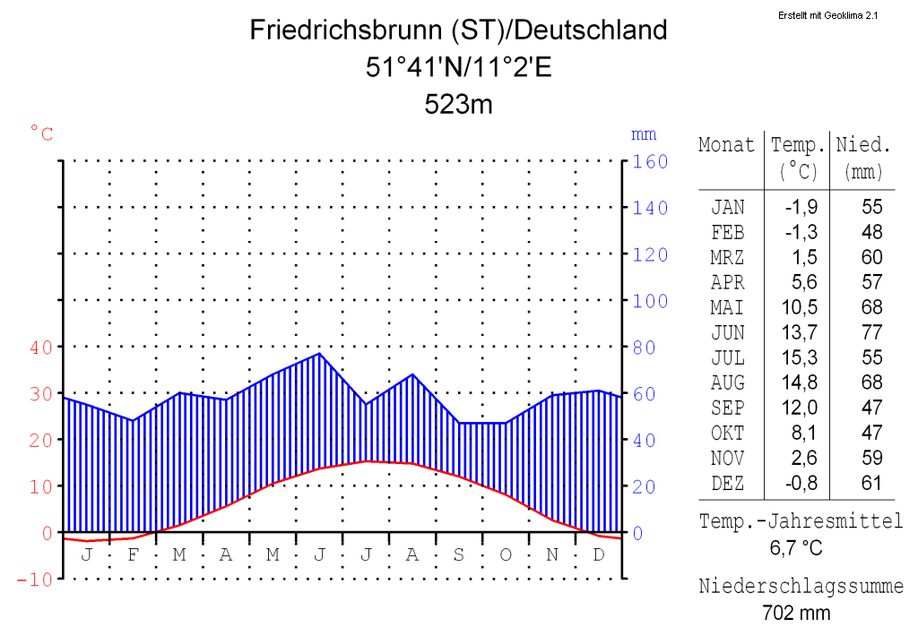 climate chart in the format by Walter and Lieth, metric, °Celsisus and millimeters, made with Geoklima 2.1